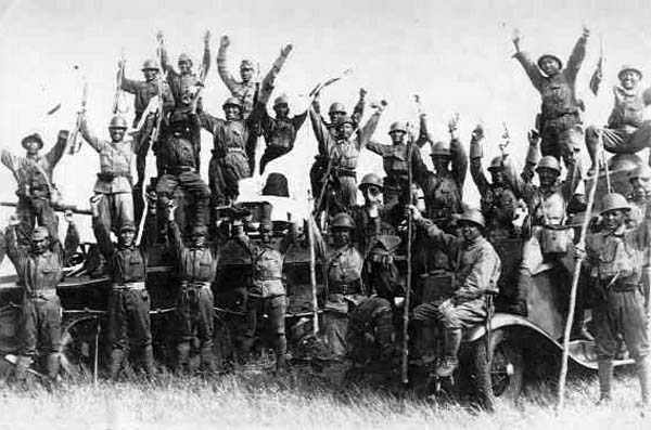 Battle of Khalkhin Gol-Japanese soldiers and captured Soviet AFVs (BT-5 & BA-3 ?)